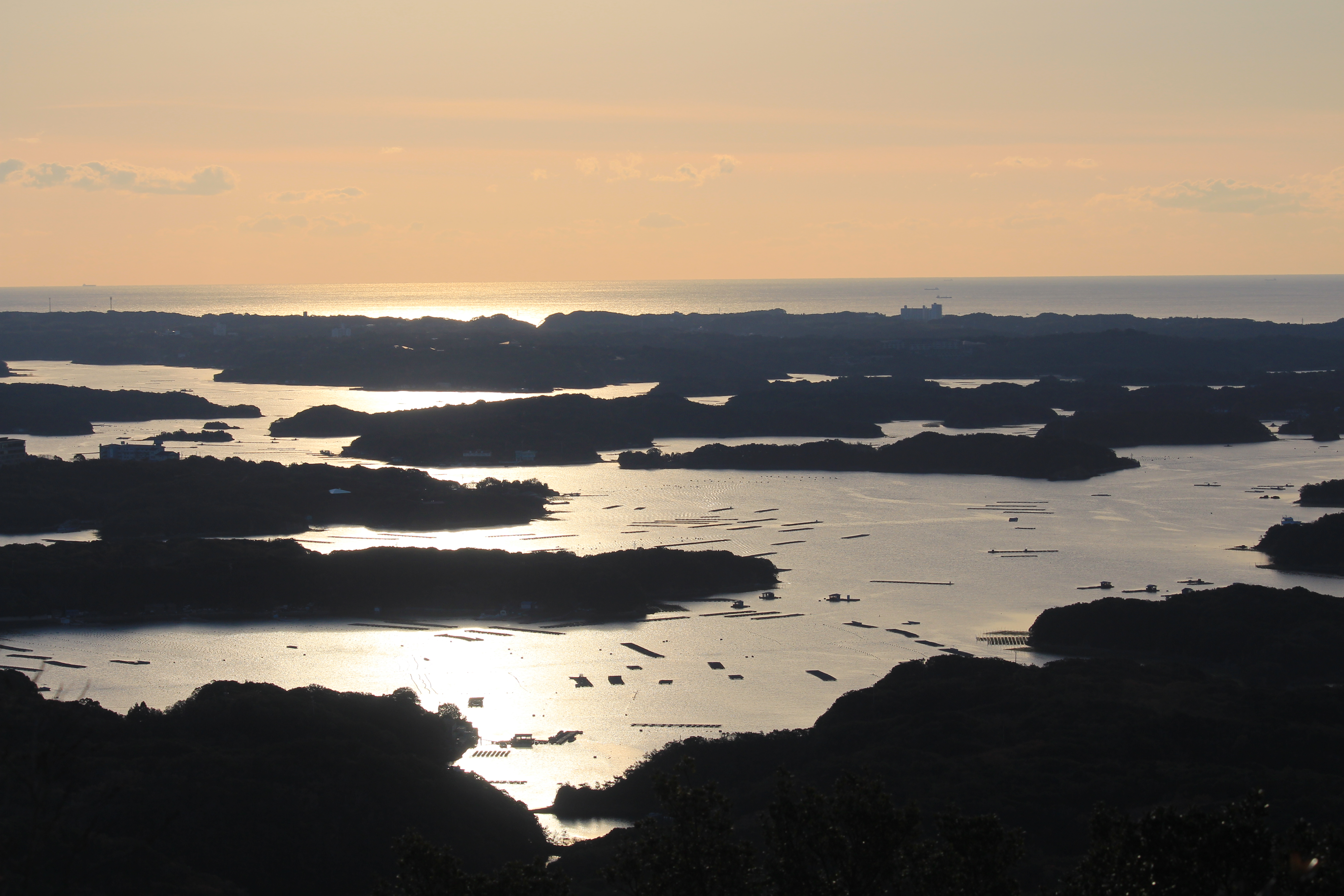 Ago Bay and sunrise seen from Yokoyama Viewpoint, in Shima, Mie prefecture, Japan.